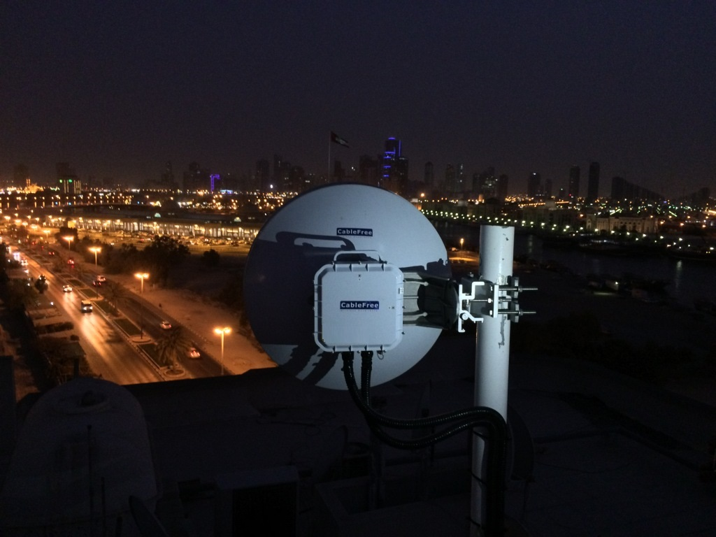 CableFree MMW Link installed in the UAE installed for Safe City Applications, providing 1Gbps capacity between sites.